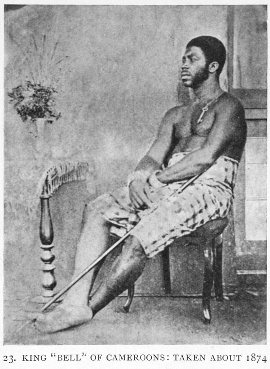 King 'Bell' of Cameroons: taken about 1874. From George Grenfell and the Congo; a history and description of the Congo Independent State and adjoining districts of Congoland, together with some account of the native peoples and their languages, the fauna and flora; and similar notes on the Cameroons and the island of Fernando Pó, the whole founded on the diaries and researches of the late Rev. George Grenfell, B.M.S., F.R.G.S.; and on the records of the British Baptist Missionary Society; and on additional information contributed by the author, by the Rev. Lawson Forfeitt, Mr. Emil Torday, and others, by Sir Harry Johnston, Volume I (published 1908).